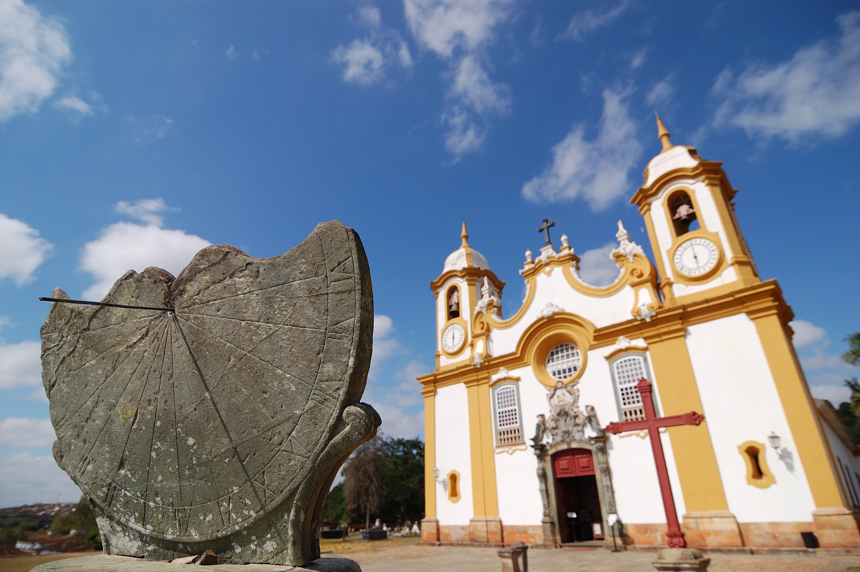 Saint Anthony of Padua Church, Tiradentes, Brazil